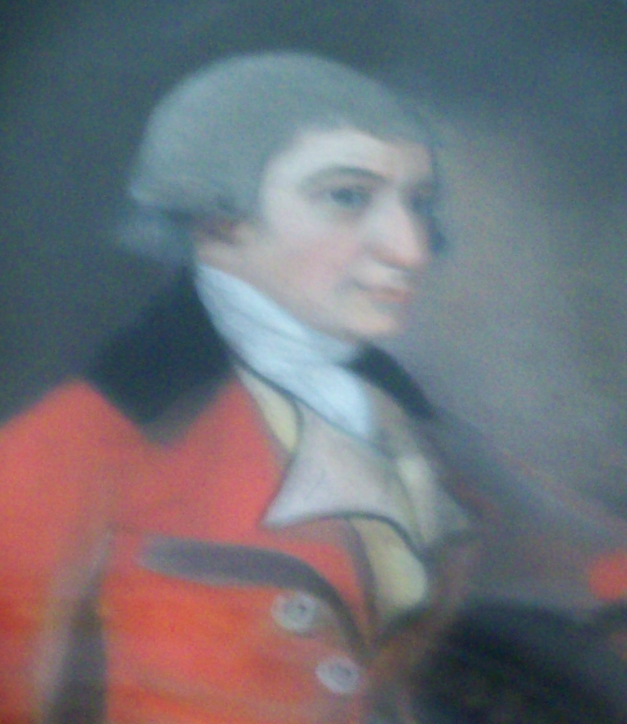 Portrait of Sir Henry Harpur, 6th Baronet (1739 – 10 February 1789). Calke Abbey tradition holds that it was supposed to have been created "at The Bear Hotel, Devizes, aged 10 yrs old". Lawrence would have been 10 in 1779, the last year his family lived at The Bear Hotel (his father's inn) in Devizes; after his father's bankruptcy, the family moved first to Oxford and then settled in at the end of 1780 in Bath, where he took up pastels. He was 15 in 1784. At the same time as he executed this portrait, he also created a companion portrait of Sir Henry's son, Sir Henry Harpur, 7th Baronet (1763 – 1819) (see article for image). Also in 1784, Sir Henry's wife wrote to Lawrence to commission a small oval self-portrait (of which at least two copies are extant), and wanted to adopt him.